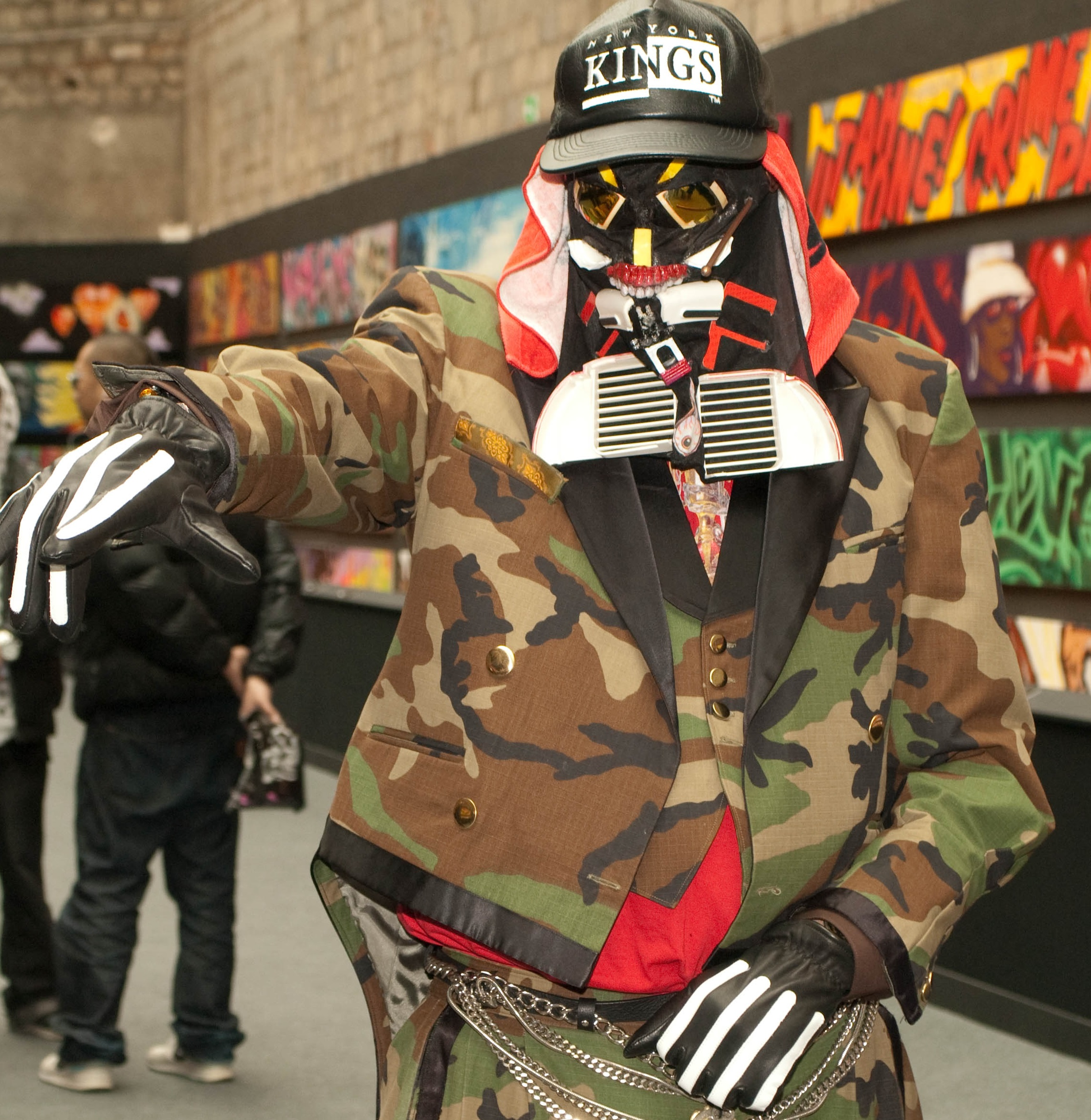 Rammellzee with his costum on at the Grand Palais, Paris